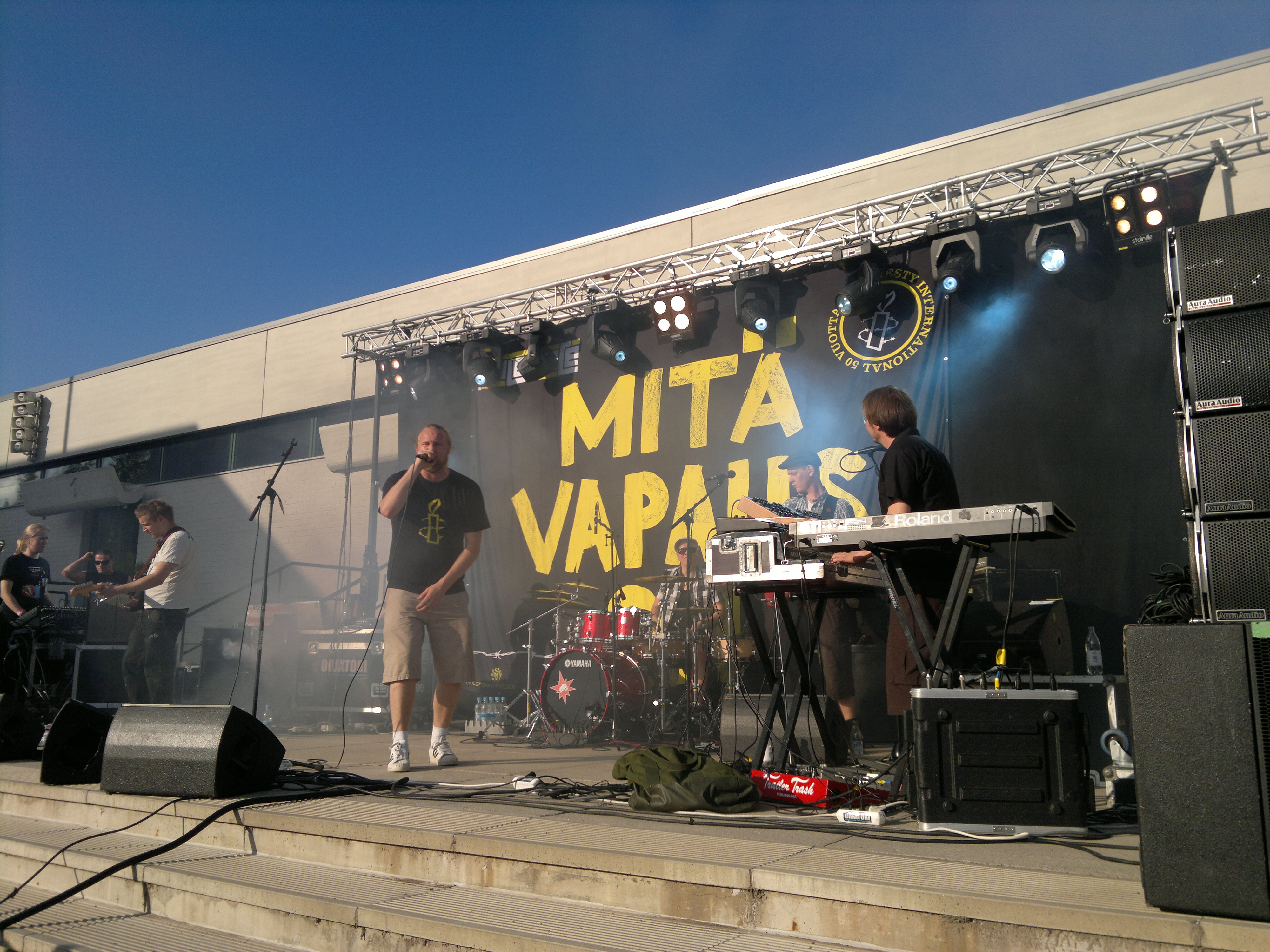 Paleface performing in Pori Brigade, Säkylä, Finland.